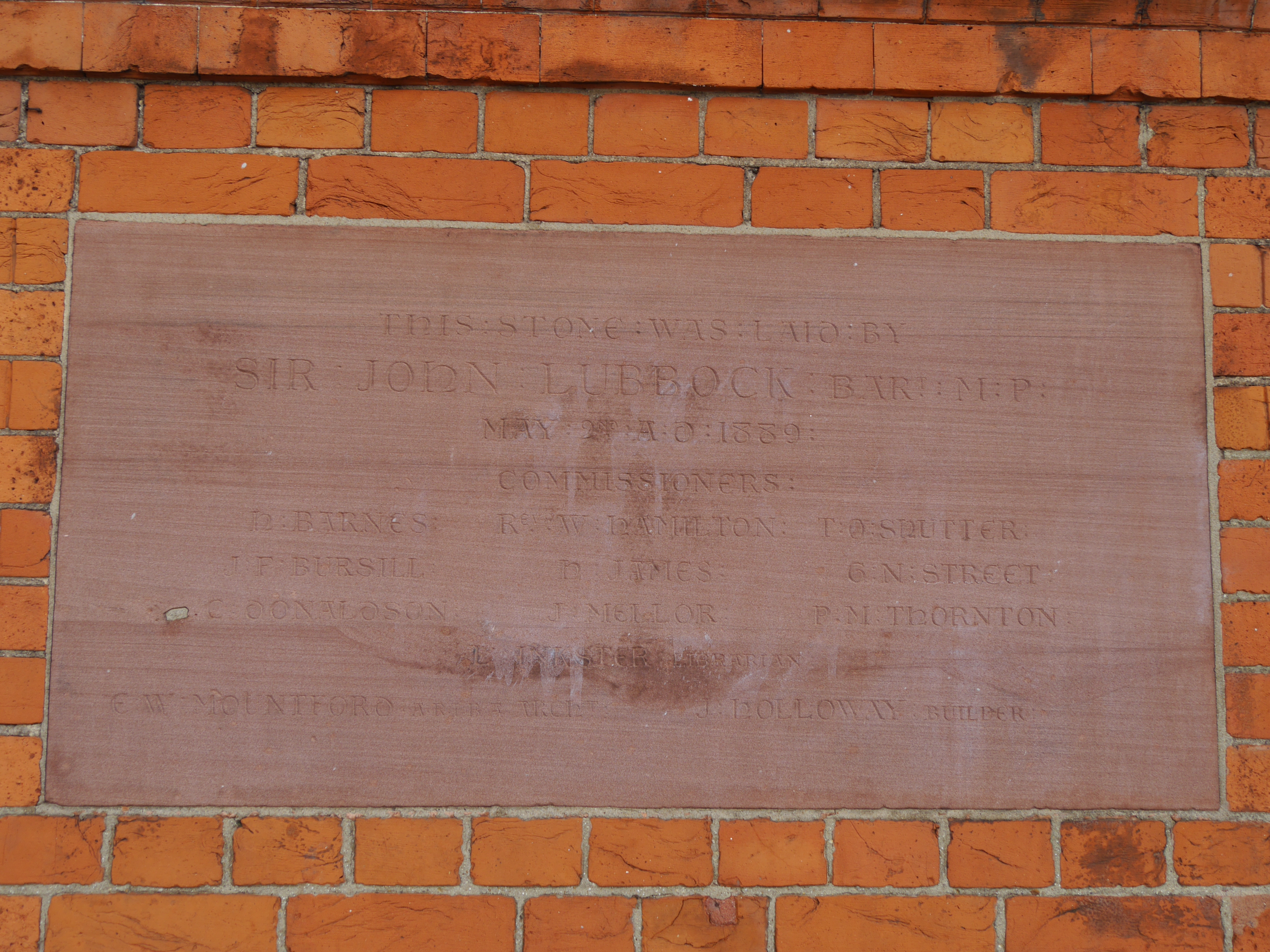 Battersea Library